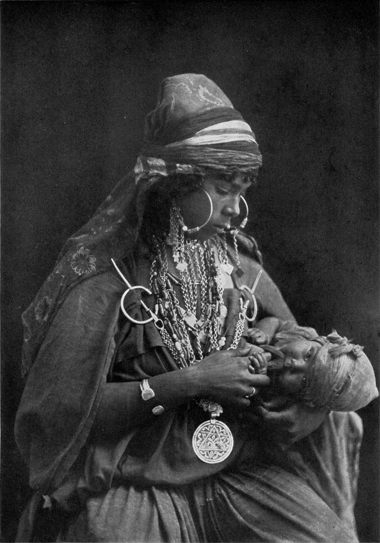 [from original National Geographic article] A BEDOUIN MOTHER AND CHILD. The father of this little nomad may be a warlike bandit with a cloudy notion of property rights and other details of the civilized code; his mother a simple daughter of the desert with a childish curiosity and fondness for gaudy trinkets, but her babe has the divine heritage of mother love as truly as the most fortunate child of our own land.